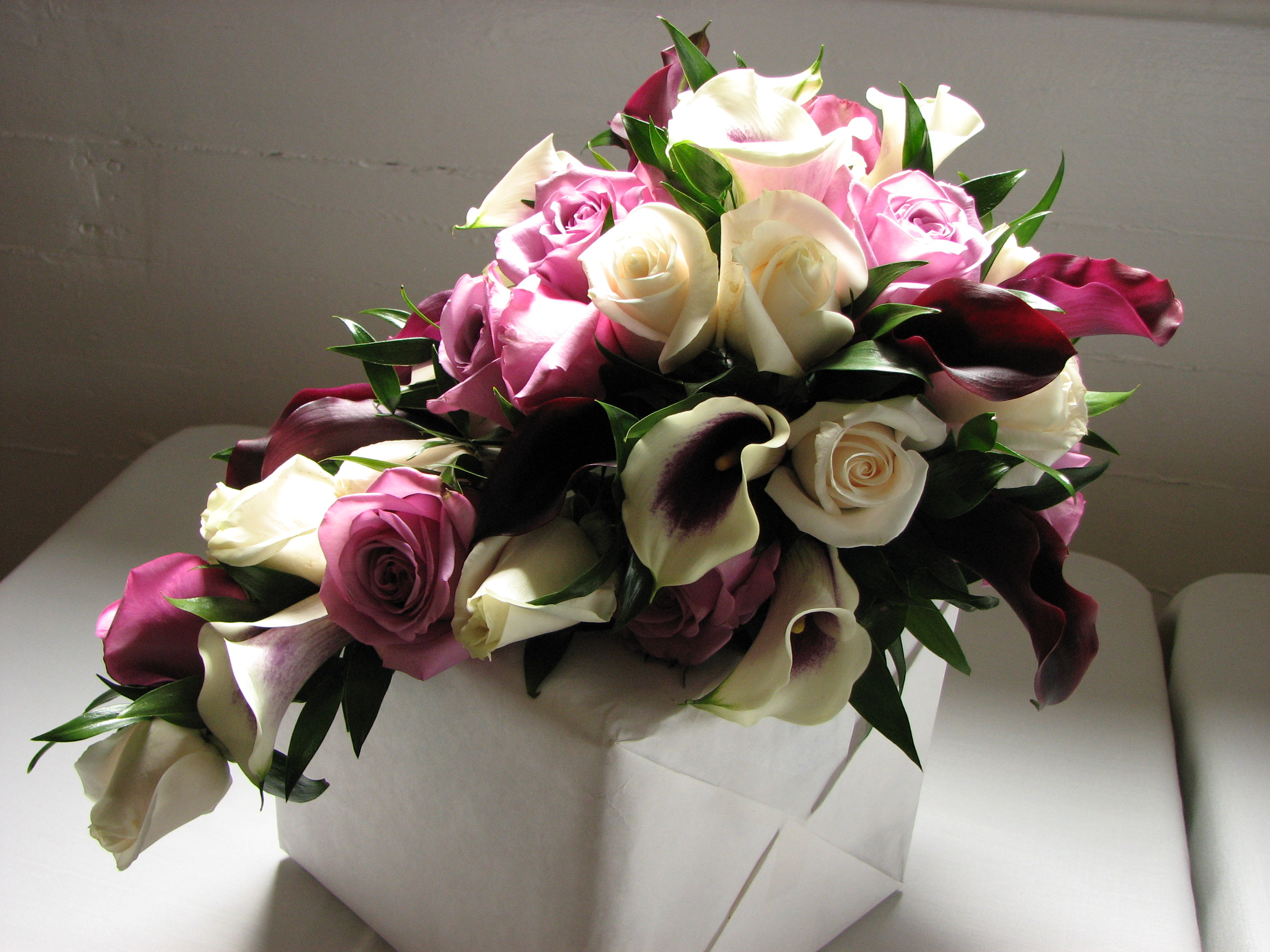 A cascading flower bouqueten.